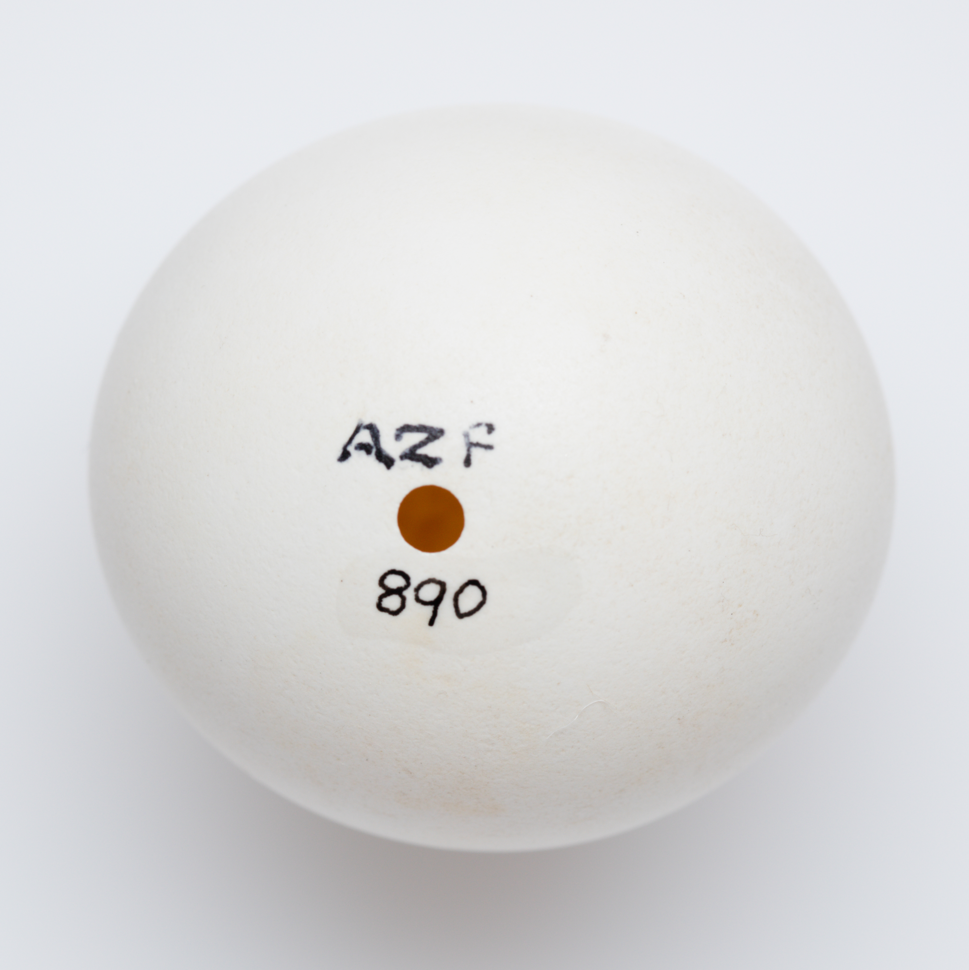 Egg from a Morepork (Ninox novaeseelandiae) in the collection of Auckland Museum LB890